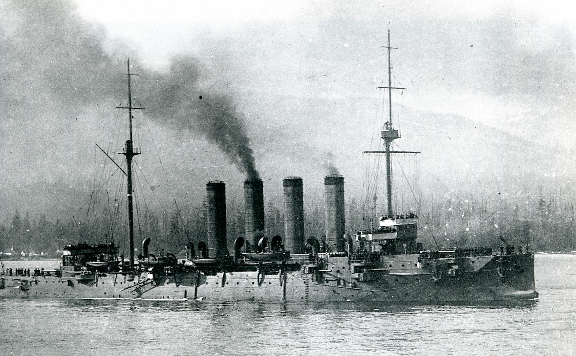 Japanese cruiser Soya in 1909, while on port call to Vancouver